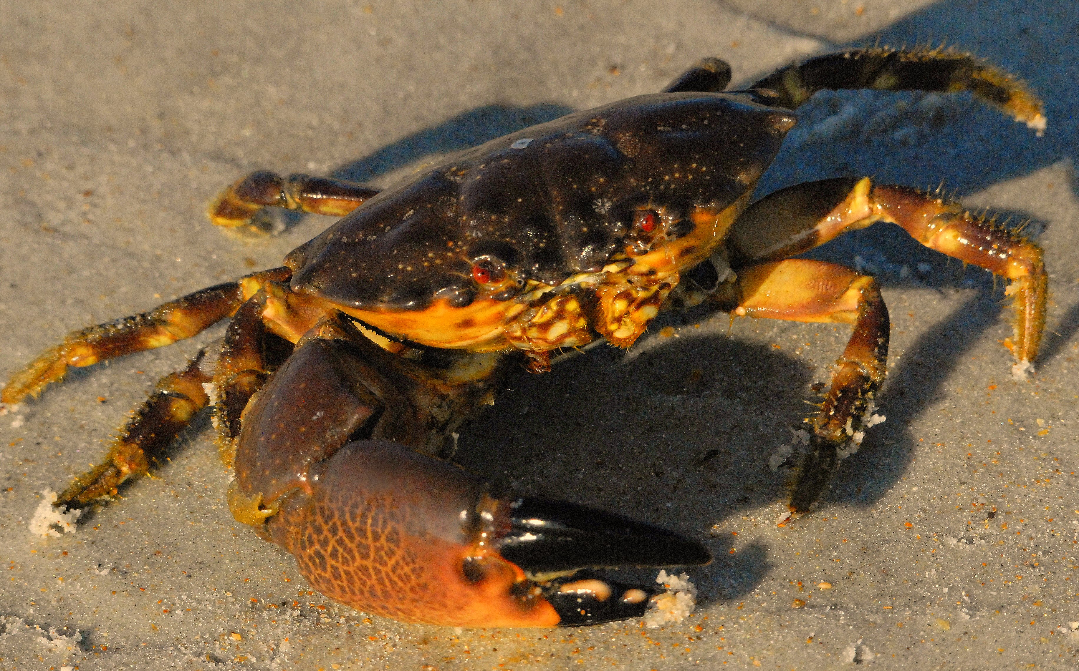 Juvenile Stone Crab at Smyrna Dunes Park